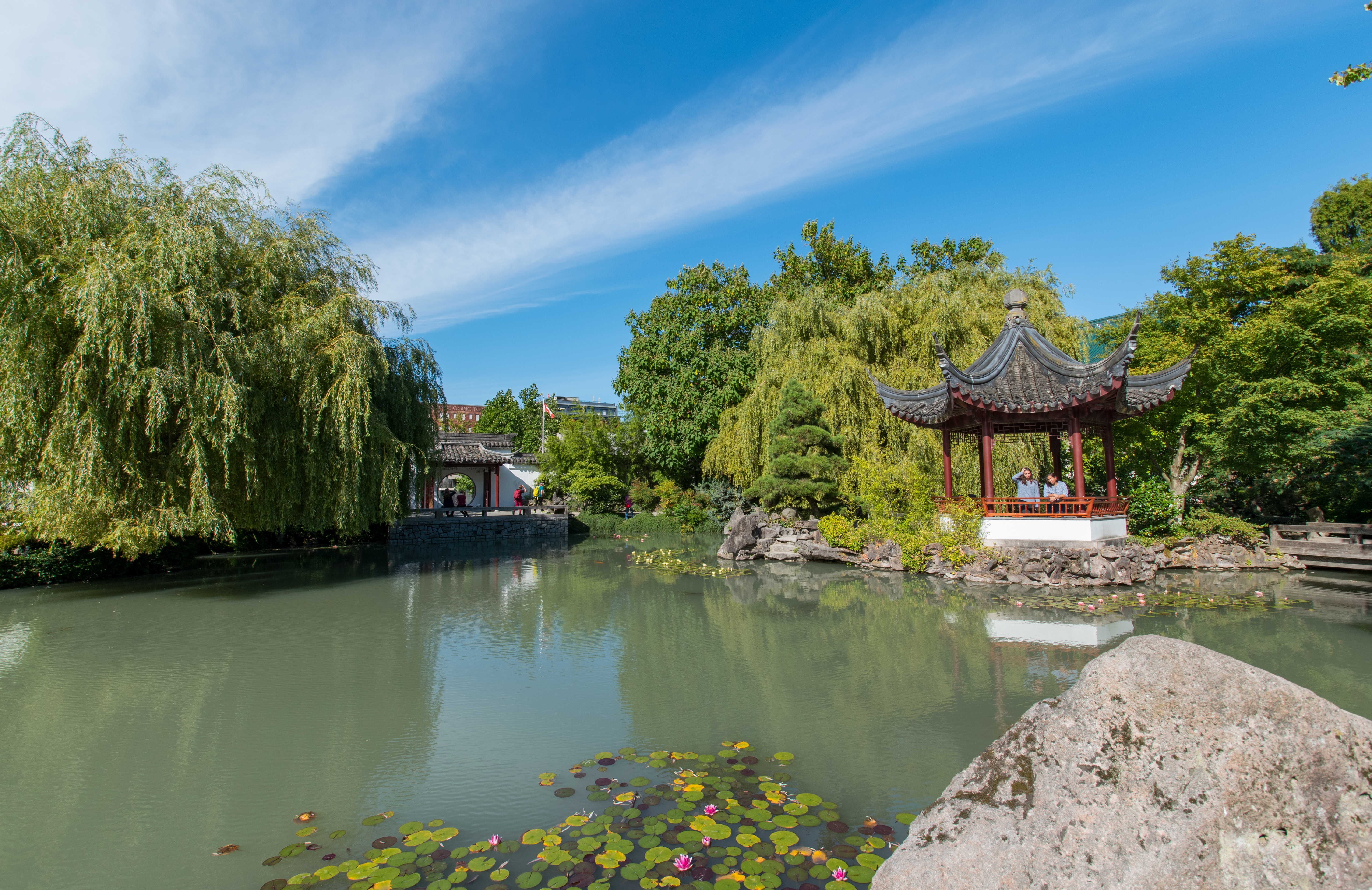 The Dr. Sun Yat-Sen Park.